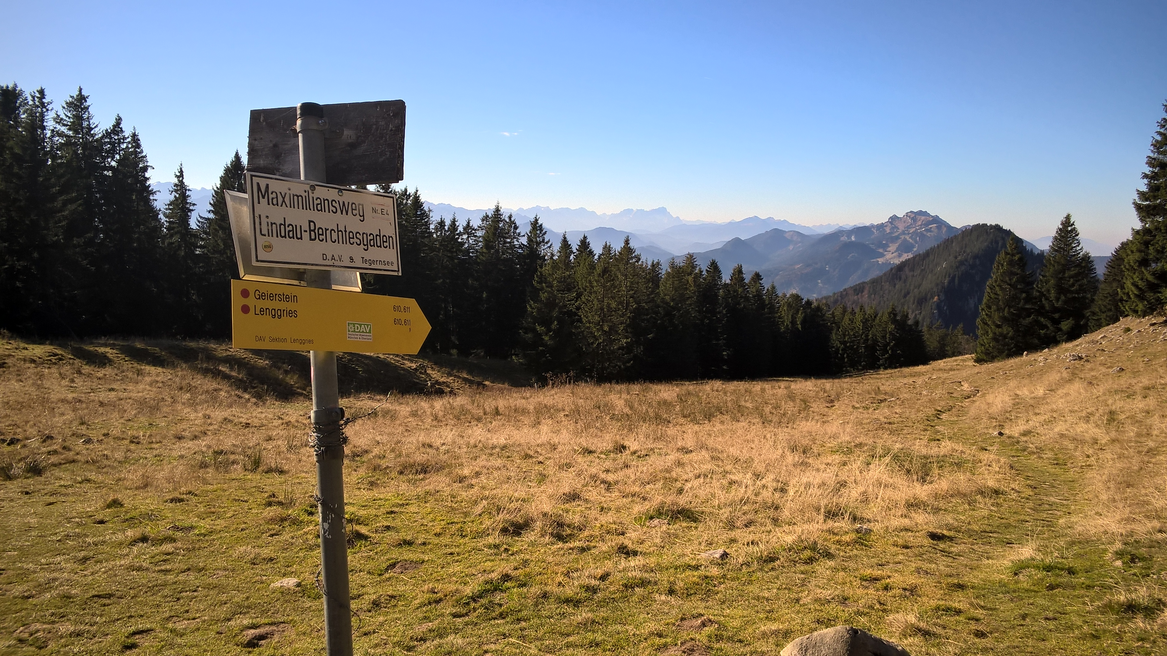 Waymark Maximiliansweg (E4) in Bad Wiessee near Neuhüttenalm